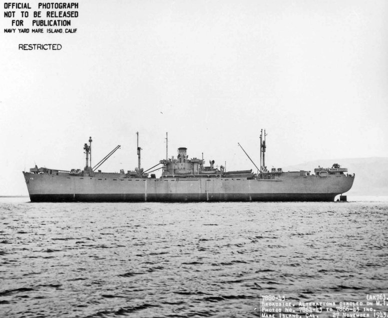 Broadside view of USS Celeno (AK-76) off Mare Island Navy Yard, Vallejo, CA., 27 November 1943.